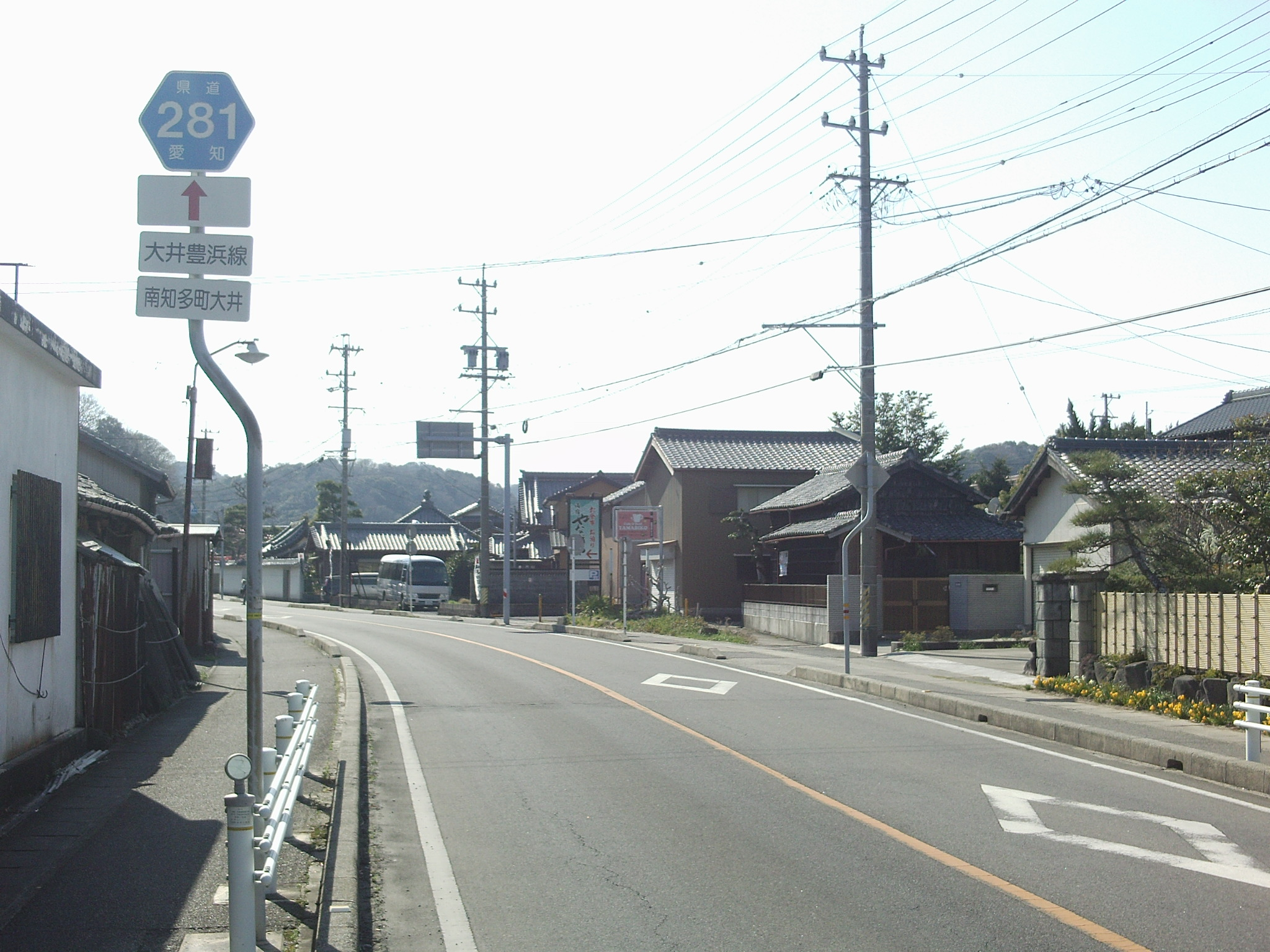 Aichi prefectural road No.281 in Ohi Minamichita-cho Chita-gun, Aichi.